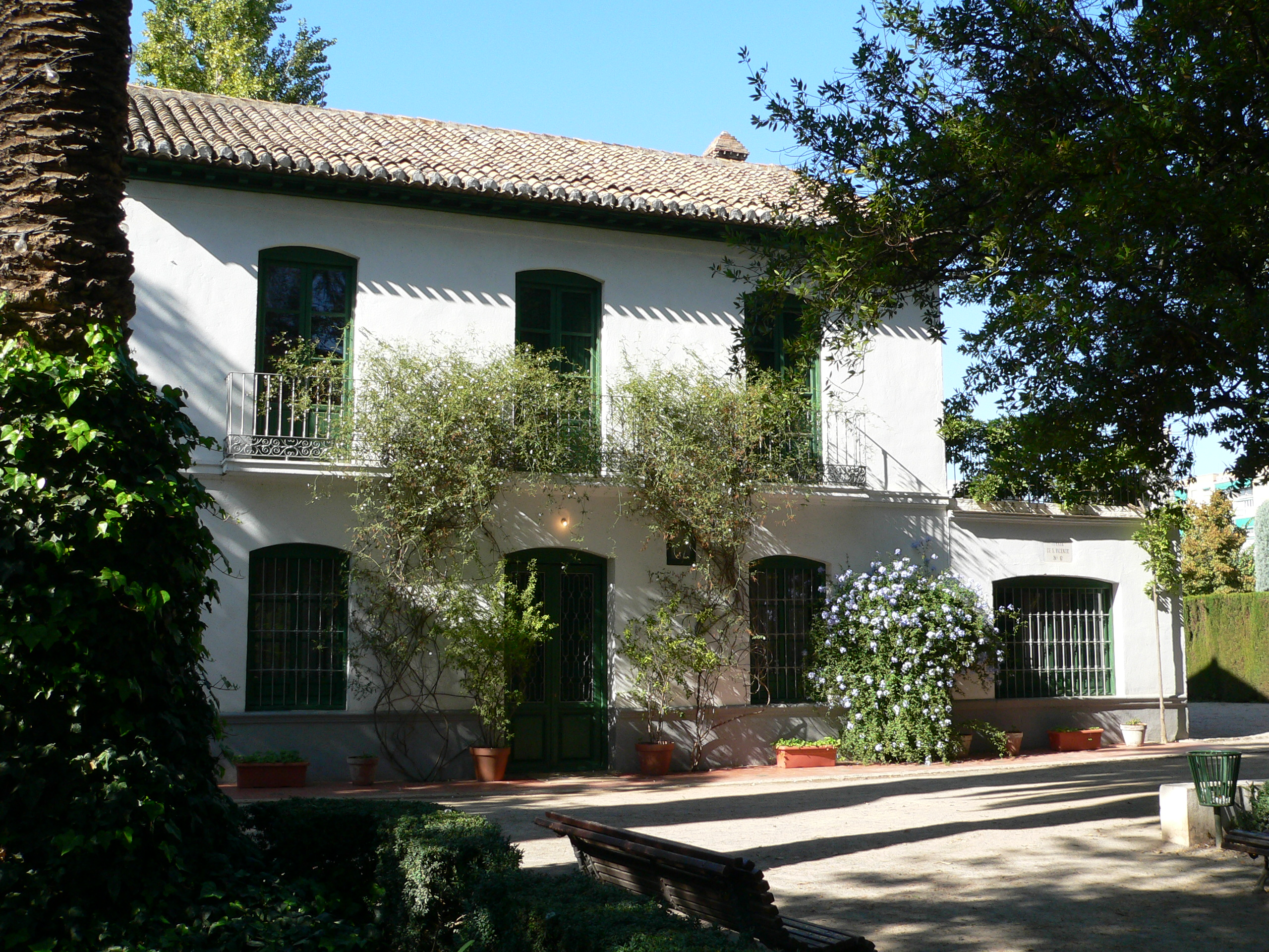 Huerta de San Vicente, Lorca's summer home in Granada, Spain